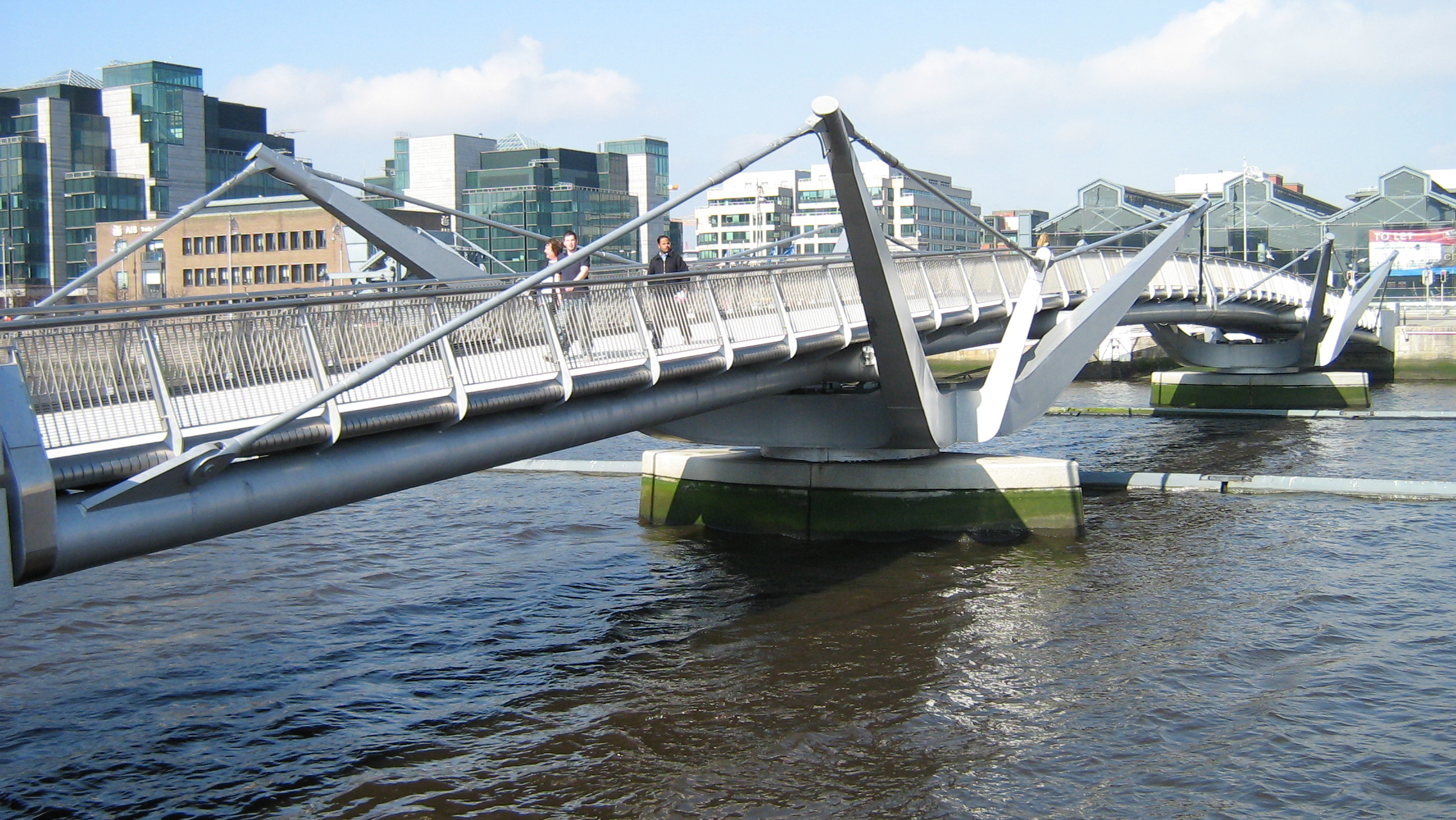 Sean O'Casey Bridge Dublin, Ireland